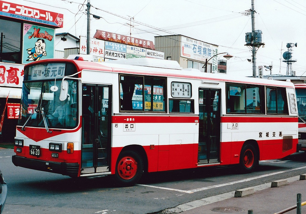 Miyagi Kotsu (Iwanuma depot) Hino Rainbow (P-RJ172BA,FHI 6E body from Ensyu Railway bus)